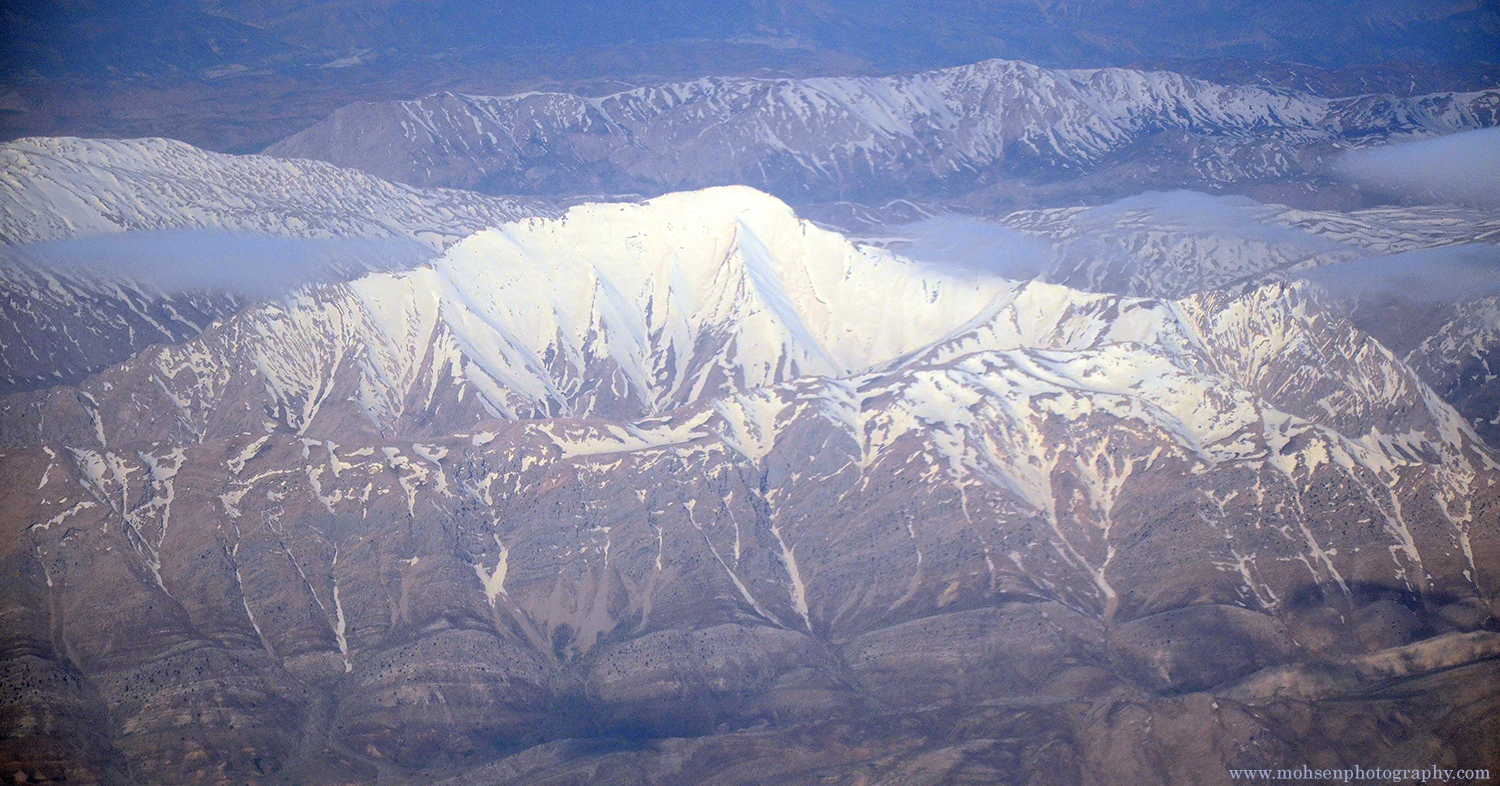 رخ شمالی قله رنج در اواخر فروردین